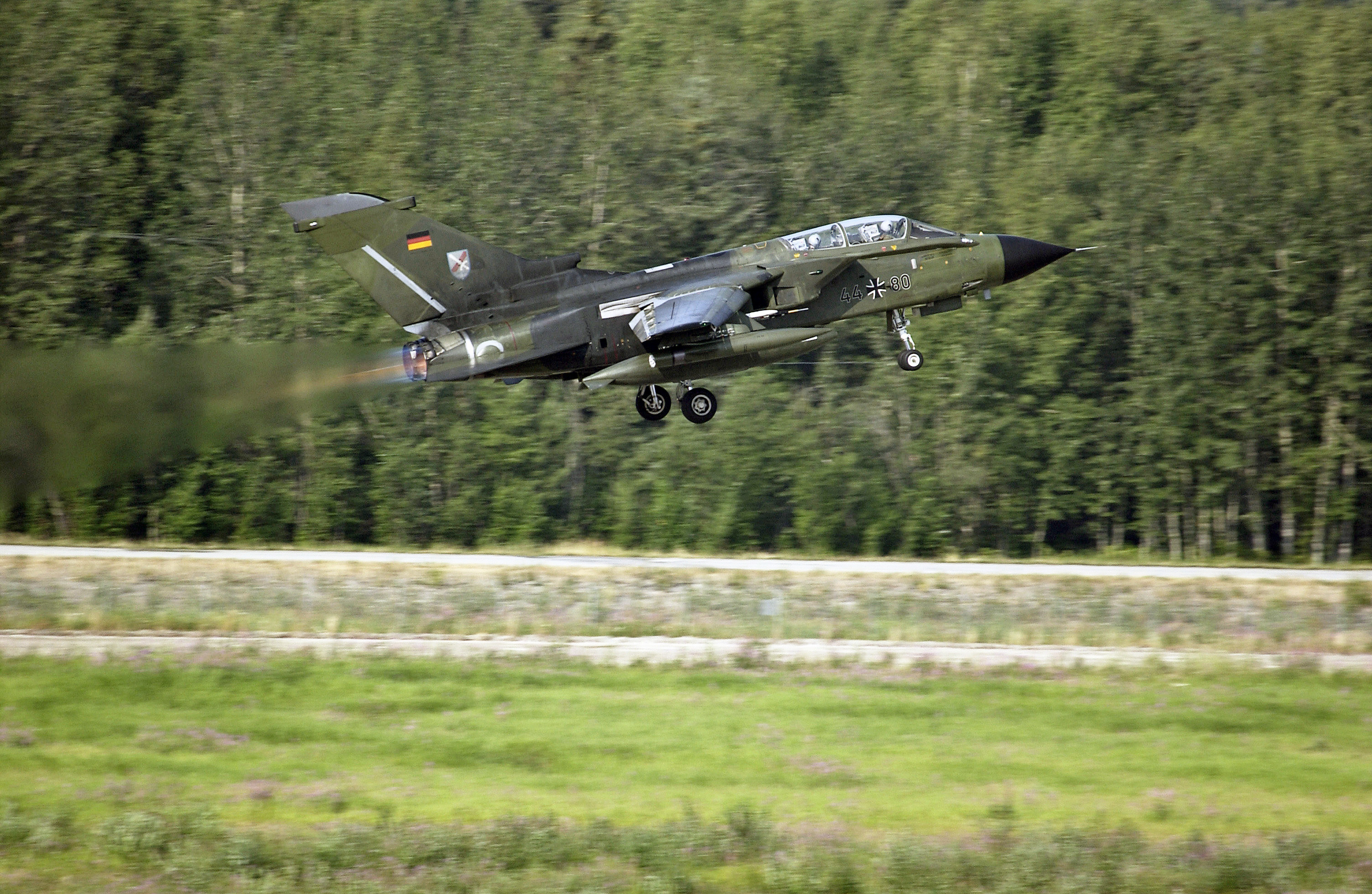 A Luftwaffe (German Air Force) Panavia Tornado aircraft (s/n 44+80) of the Jagdbombergeschwader 31 (31st Fighter-Bomber Wing) Boelcke, based at Noervenich, Northrhine-Westphalia, Germany, takes off from Eielson Air Force Base, Alaska (USA), on 18 July 2004. The aircraft took part in exercise Cooperative Cope Thunder, the largest multinational air combat training exercise in the Pacific. This 15-day exercise simulated wartime combat conditions so that military personnel from 12-nations could sharpen their air fighting skills, exchange air operational tactics, and build closer relations with each other.